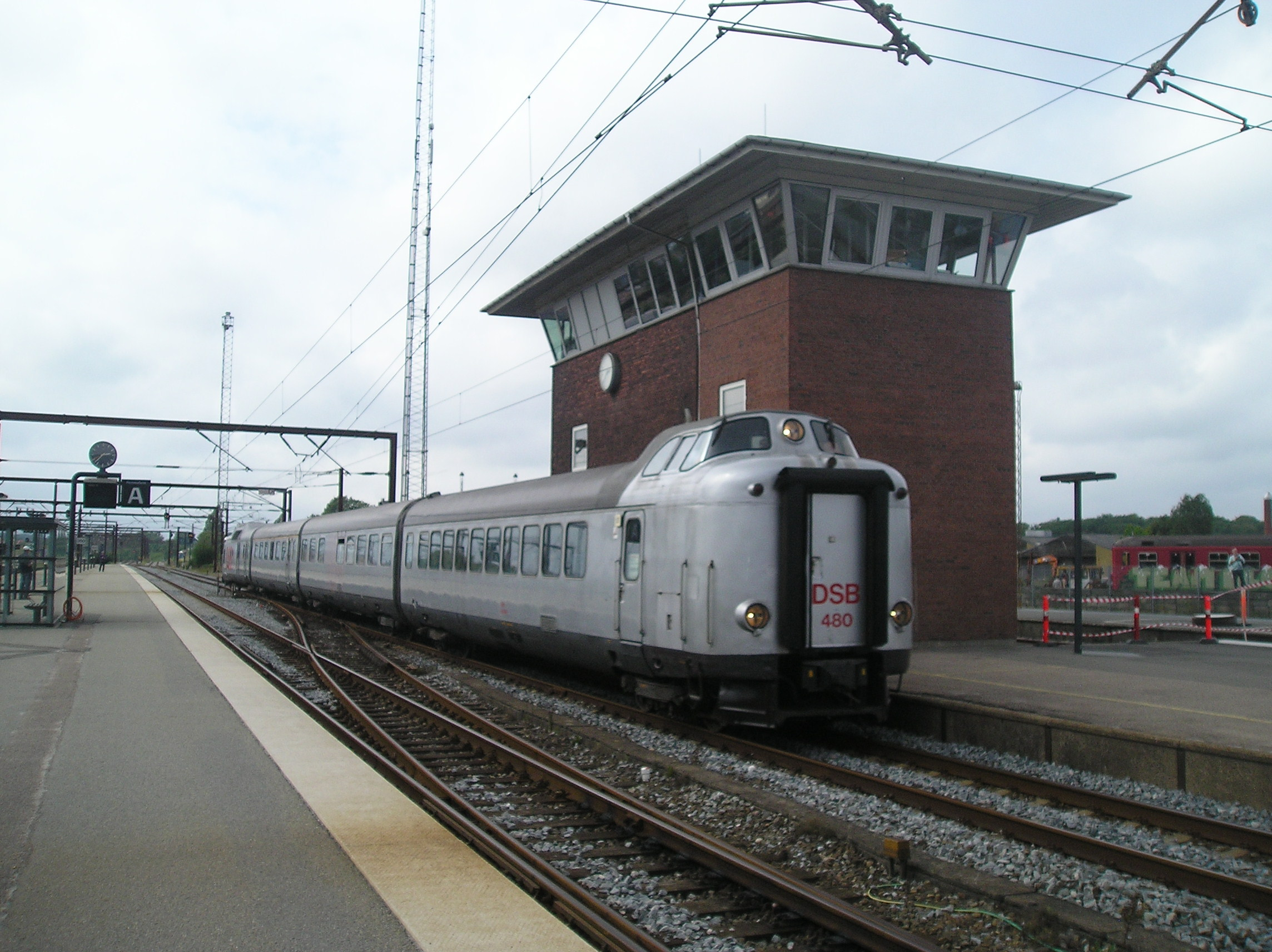 Danish multiple unit DSB Litra MA on Odense Station.